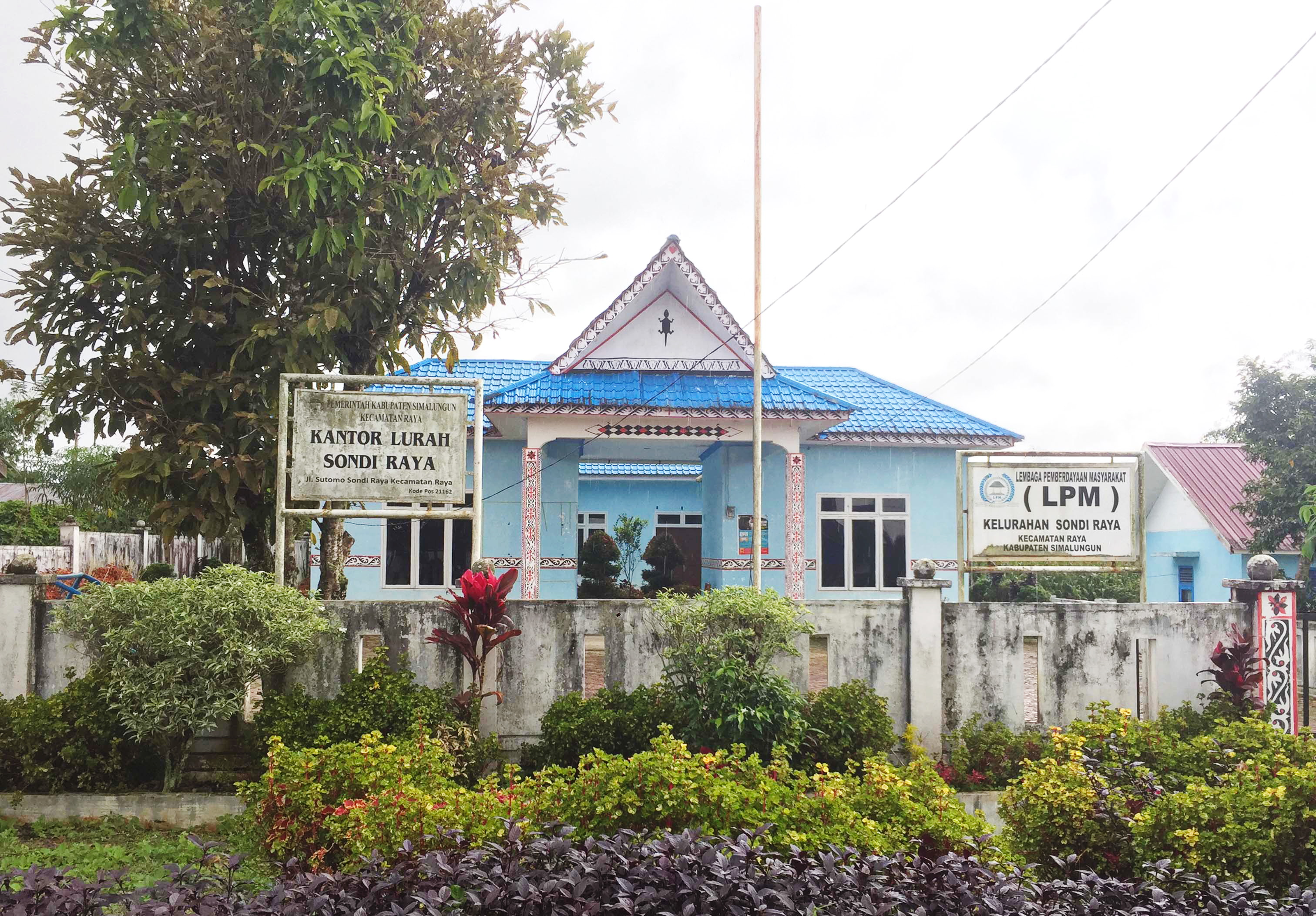 Office of Sondi Raya, Raya, Simalungun